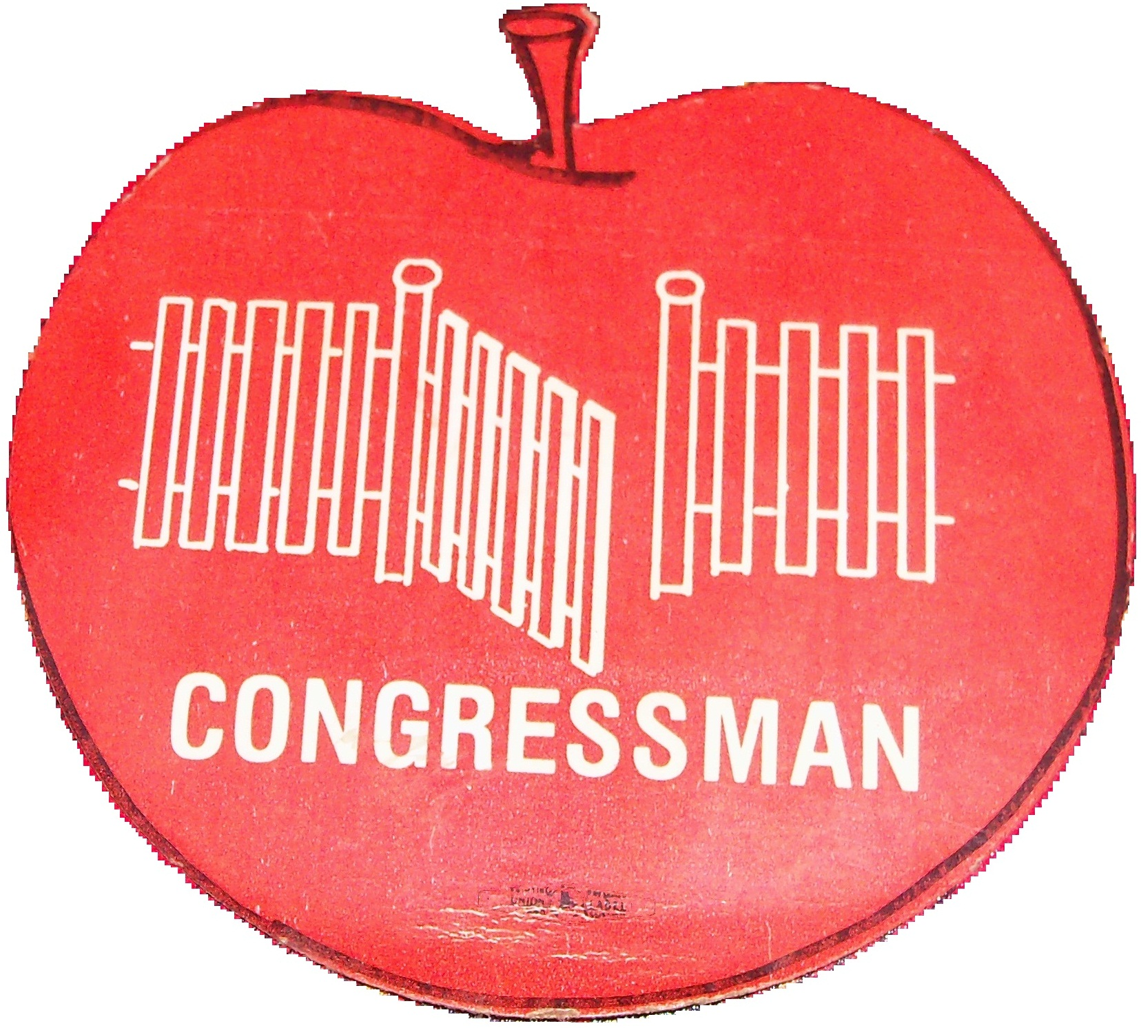 campaign ephemera for Douglas Applegate, 1970's congressman